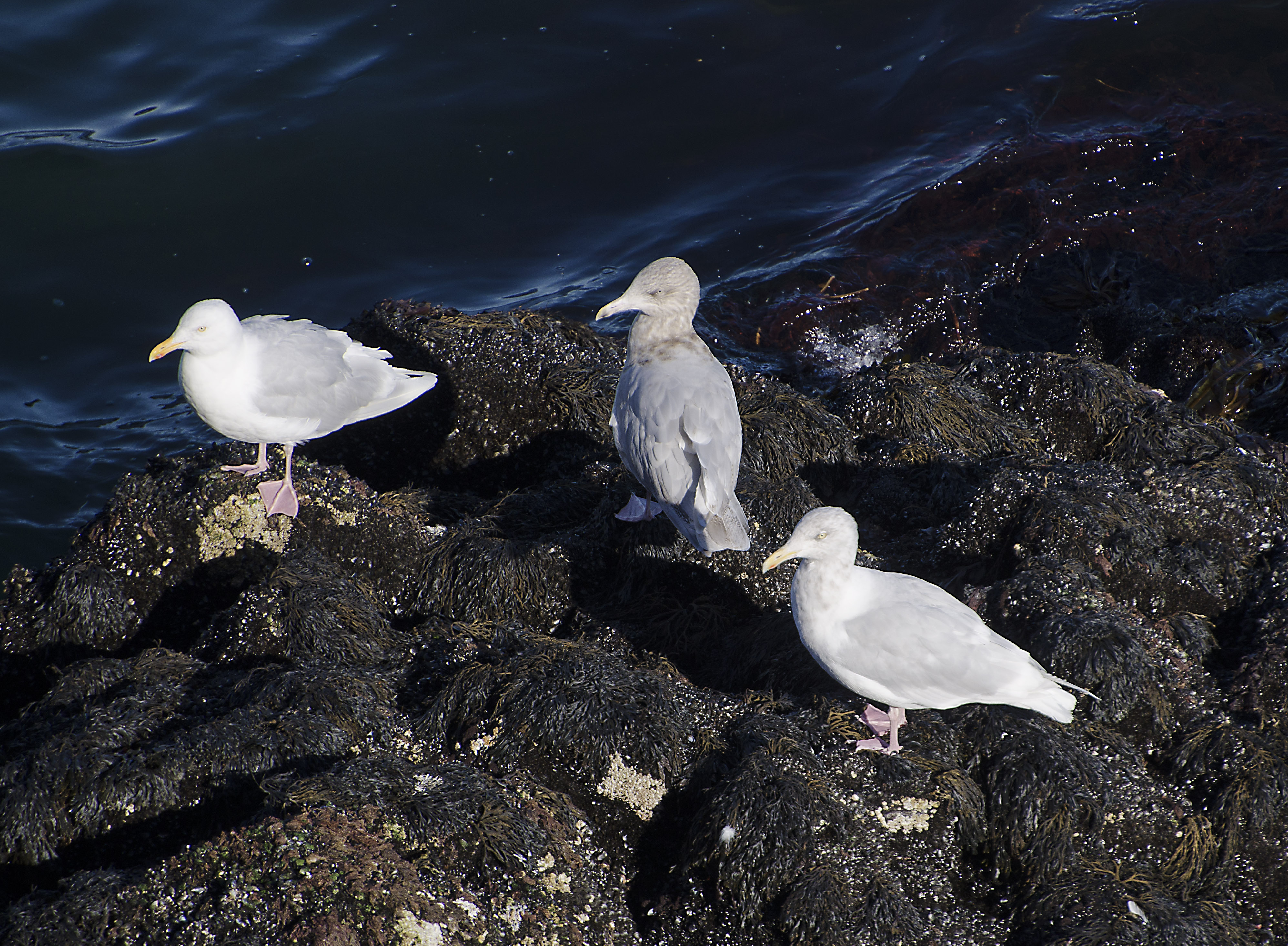 Glaucous Gulls, Arnarstapi, Iceland